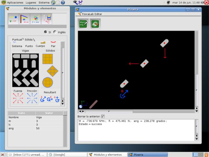 FísicaLab running on GNOME